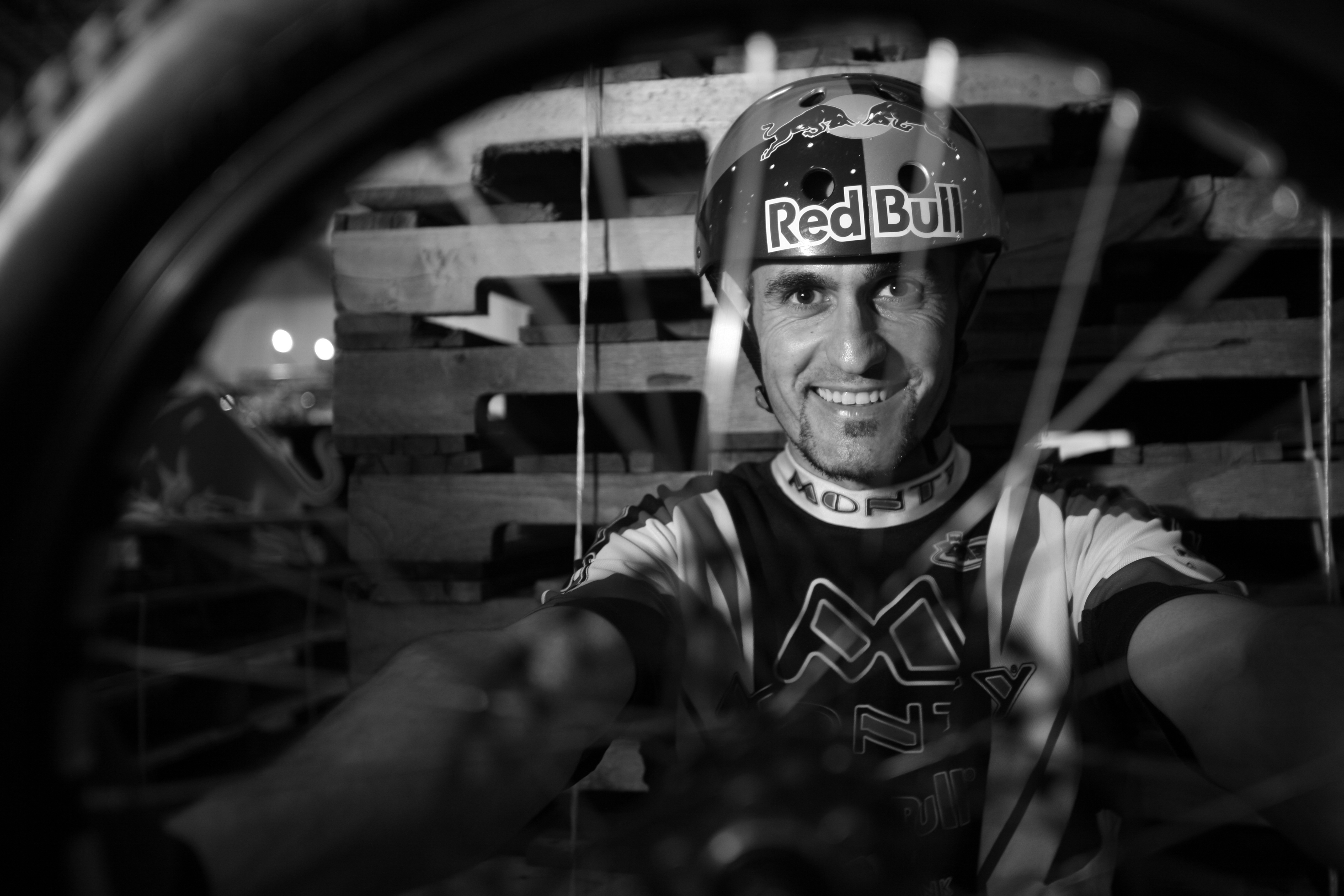 Bio Pic Ot Pi